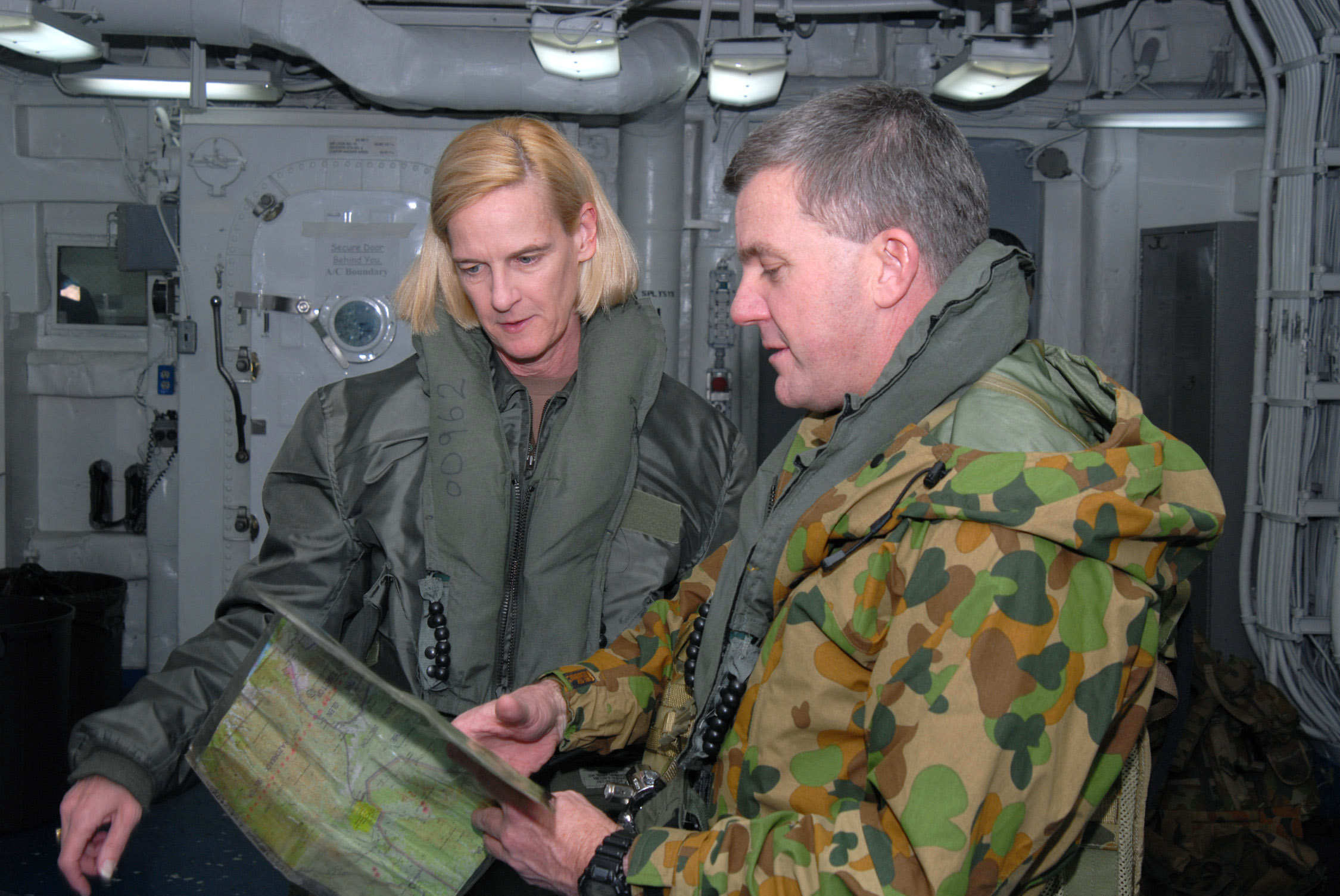 CORAL SEA (June 22, 2007) – Brigadier John G. Caligari, commanding officer of Australian Army's 3rd Brigade and commander of Combined Force Land Component Command (CFLCC), and Rear Adm. Carol M. Pottenger, commander of Expeditionary Strike Group 7 and deputy commander of Combined Force Maritime Component Command (DCFMCC), review the spread of forces within the exercise operational zone. Caligari and Pottenger are the senior leaders for exercise Talisman Saber 2007. The commanders launched from USS Essex (LHD 2) for an aerial view and then met with unit commanders on the ground as the combined U.S.-Australian forces work toward achieving exercise objectives. U.S. Navy photo by Mass Communication Specialist 2nd Class Adam R. Cole (RELEASED)